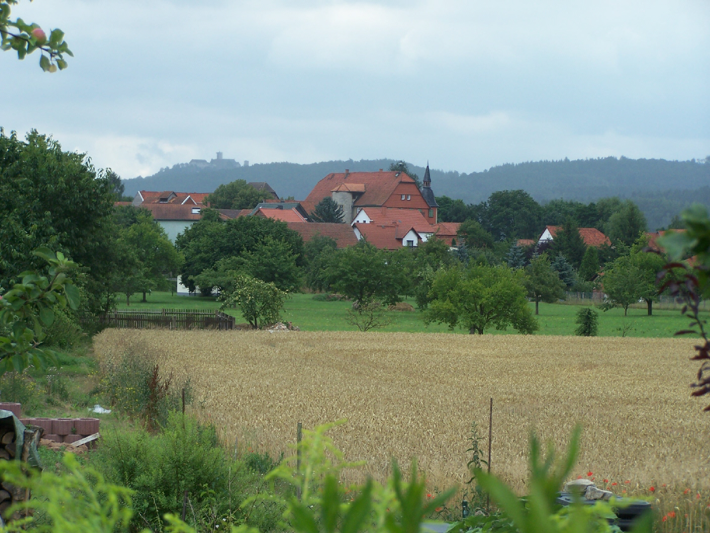 Stedtfeld, historical part with castle, view from west, on horizont - the Wartburg.